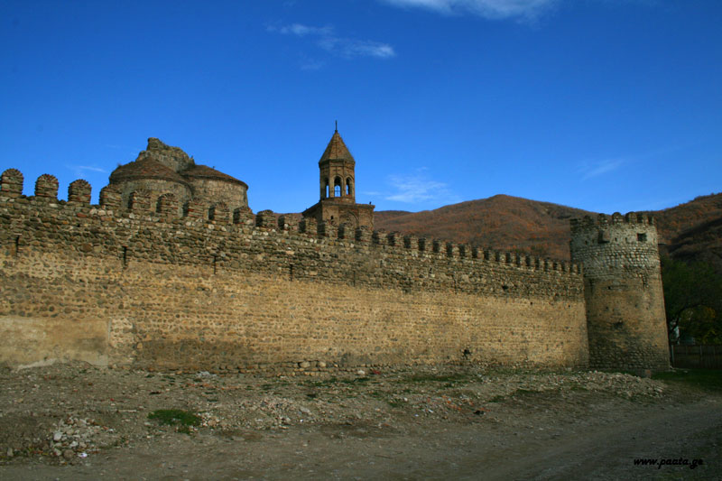 Ninotsminda monastery in Kakheti, Georgia